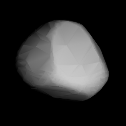 3D convex shape model of 1077 Campanula, computed using light curve inversion techniques. J. Hanuš, J. Ďurech, M. Brož, B. D. Warner (June 2011). "A study of asteroid pole-latitude distribution based on an extended set of shape models derived by the lightcurve inversion method". Astronomy and Astrophysics 530: A134. ISSN 0004-6361. arXiv